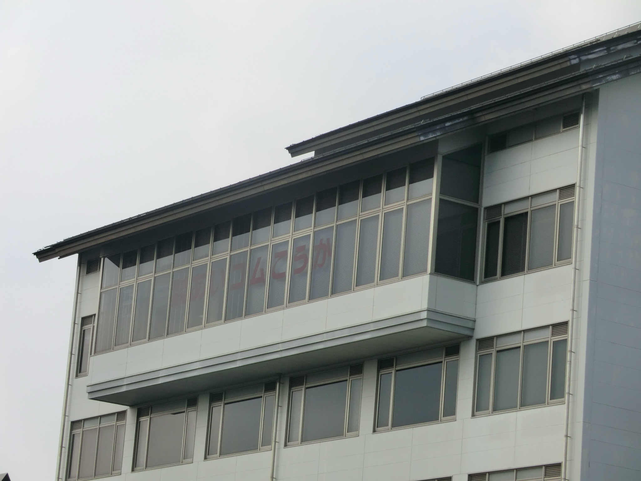 Aicom-koka head office, Tsuchiyama, Koka, Shiga, Japan